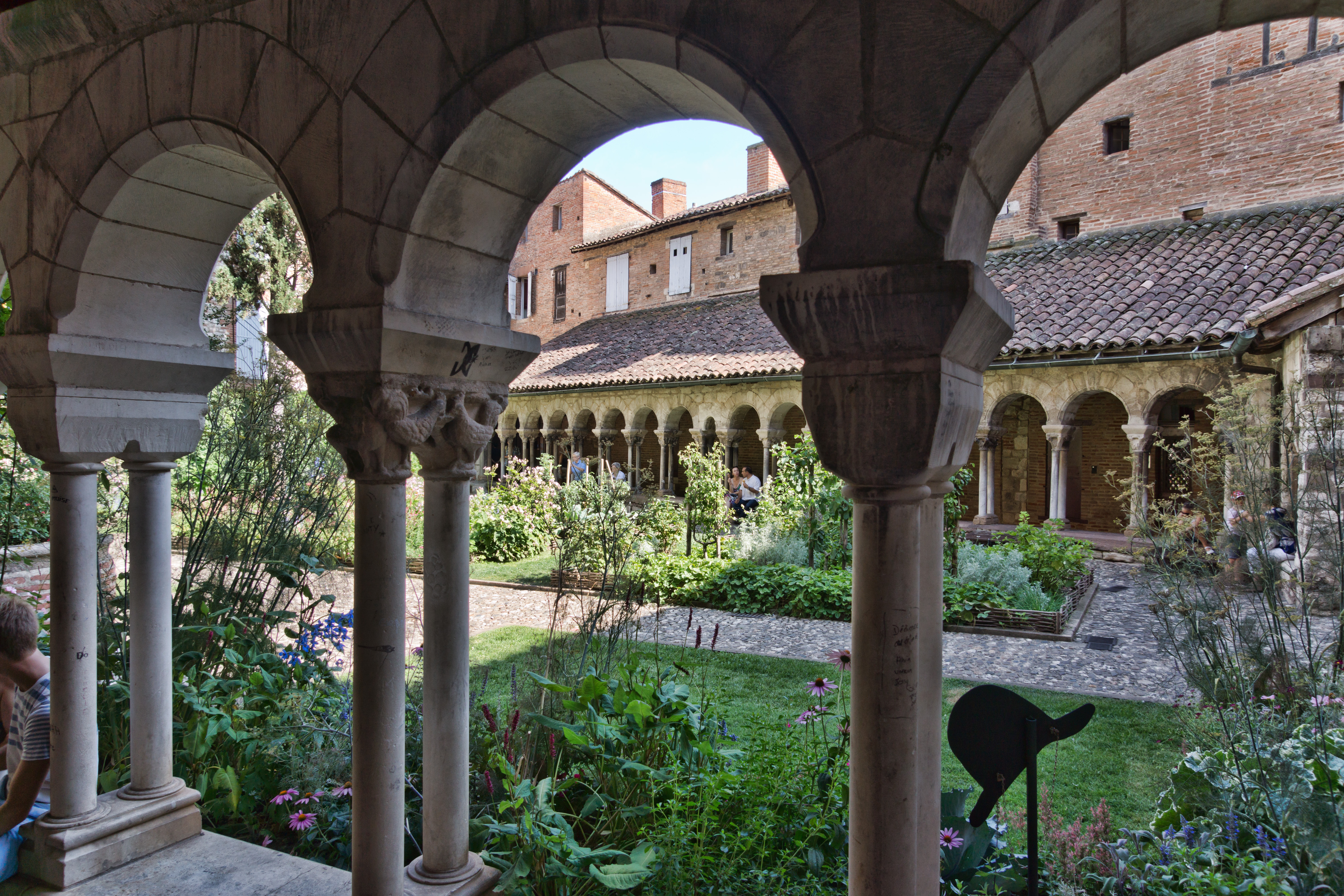 Cloister at Collegiate Church of Saint-Salvy in Albi, Tarn, Midi-Pyrénées, France